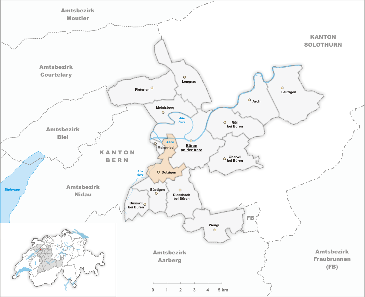 Municipality Dotzigen